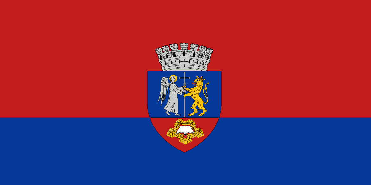 Flag of Oradea, Romania